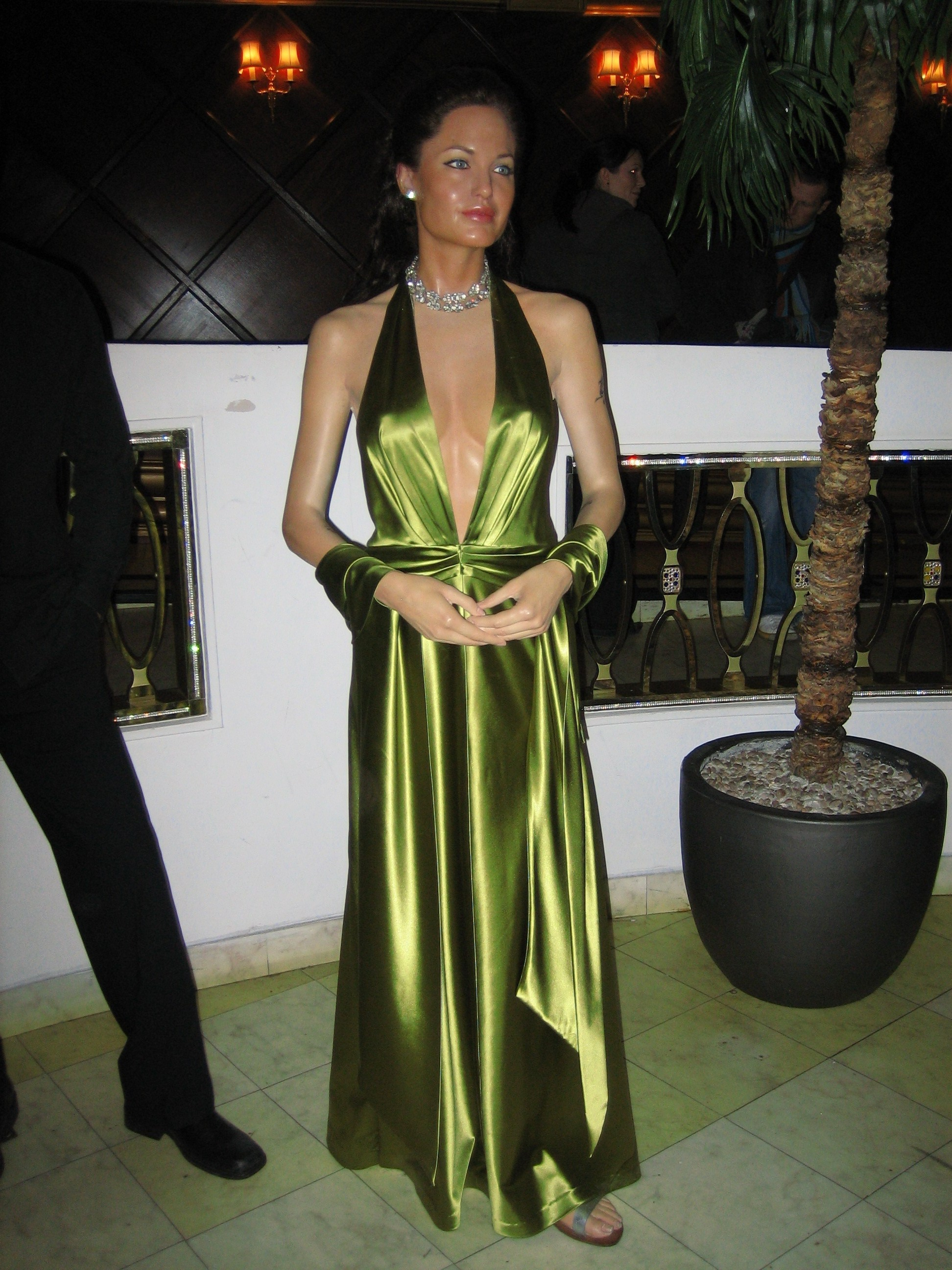 Angelina Jolie's statue in Madame Tussauds London, London, United Kingdom